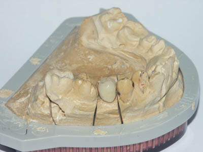 Crown model.